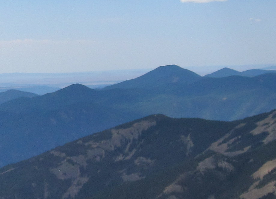 Mount Phillips (center) from atop Baldy Mountain